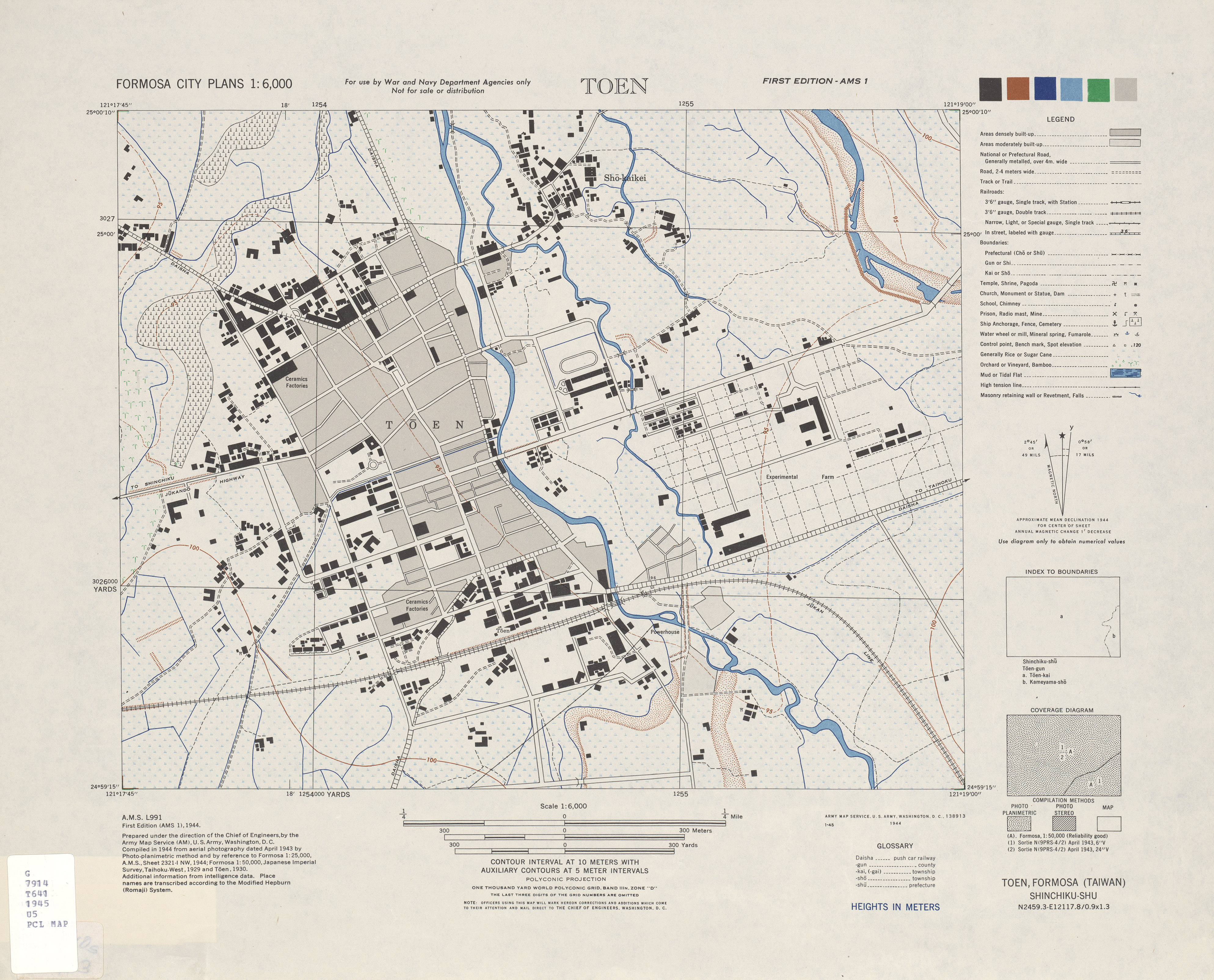 Centrl Taoyuan, Formosa (Taiwan) City Plans 中文（台灣）: 這批地圖是1944-1945美國海軍航空兵偵照繪製，並配合美國情報相關單位共同標出圖中的地標。 這套圖主要是給美軍轟炸桃園重要官廳、軍事設施用的，所以官廳、地標、軍事設施特別詳細，主要建築物的平面配置形狀都有出現。